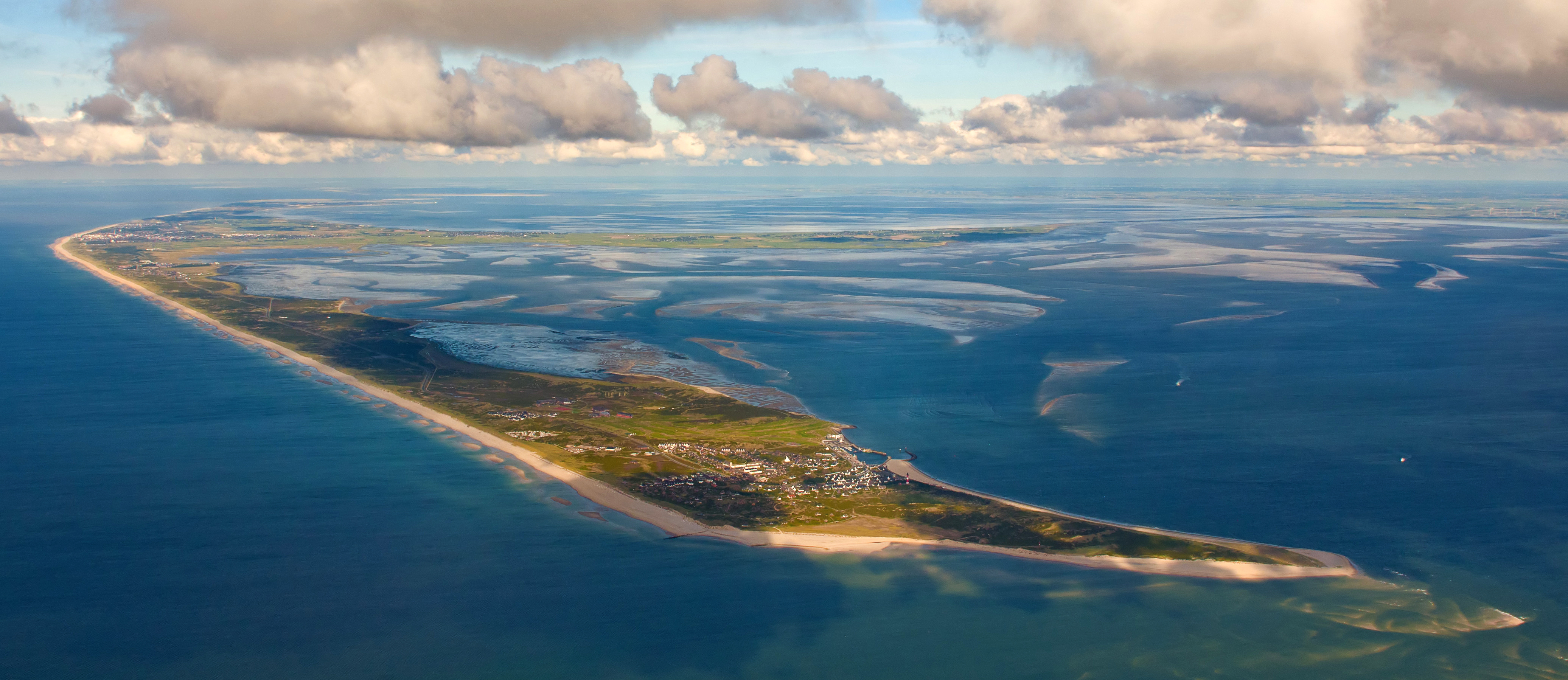 Photo flight over the North Frisian Wadden Sea, view from SSW (200 °), 1 km altitude and 4 km distance to Sylt